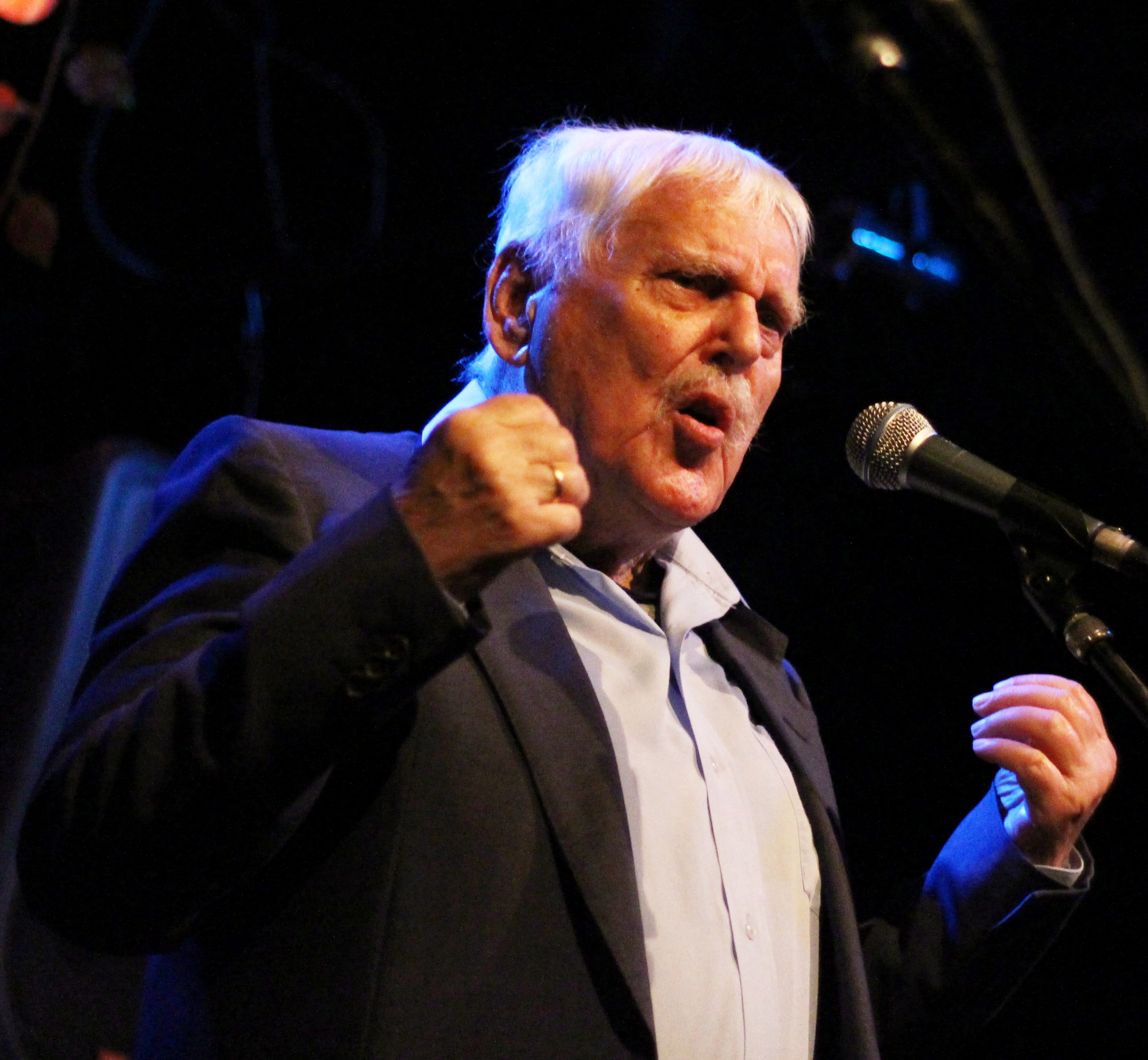 Actor Jan Güntner on the stage at Piwnica pod Baranami in Cracow.